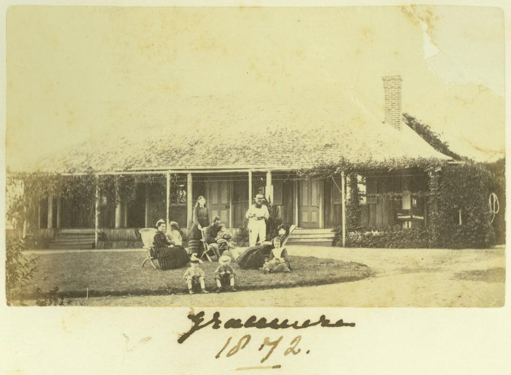 Archer family having tea on the lawn at Gracemere. The area west of Rockhampton first explored by Europeans in 1853, when the Archer Brothers arrived looking for pastures for their sheep. They settled by a small lake, which was named Gracemere in 1855.